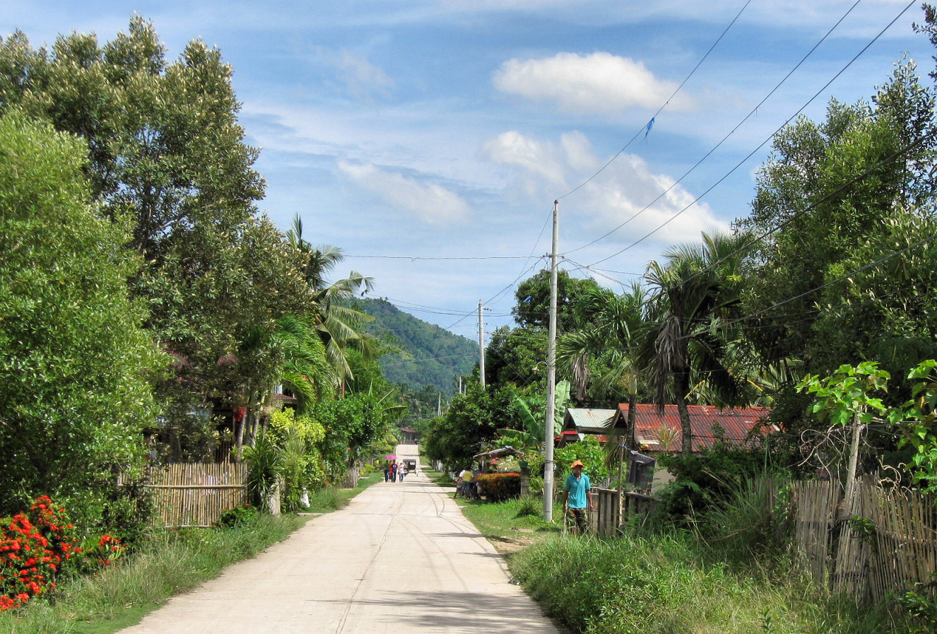 Clarin, Bohol, the Philippines